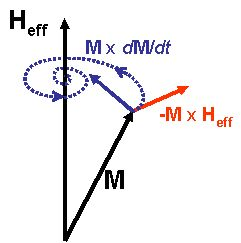 Sketch of the damped precession of the magnetization M under the influence of an effective field Heff.